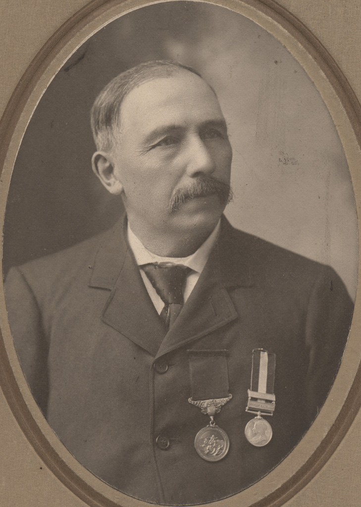 Photographer: Reuben R. Sallows (1855 - 1937) Description: Studio portrait of middle-aged man, head-and-shoulders, facing right; wears dark suit jacket, tie and white shirt; two medals on chest; moustache; Sallows imprint in lower right corner of matte; writing across bottom identifies subject: Captain William Babb, well-known sailor and hotel proprietor. He was decorated for bravery in rescue work. Object ID : 0490-rrs-ogohc-ph View additional photographs by Sallows that are held in other collections at the Reuben R. Sallows Digital Library. Order a higher-quality version of this item by contacting the Huron County Museum (fee applies).